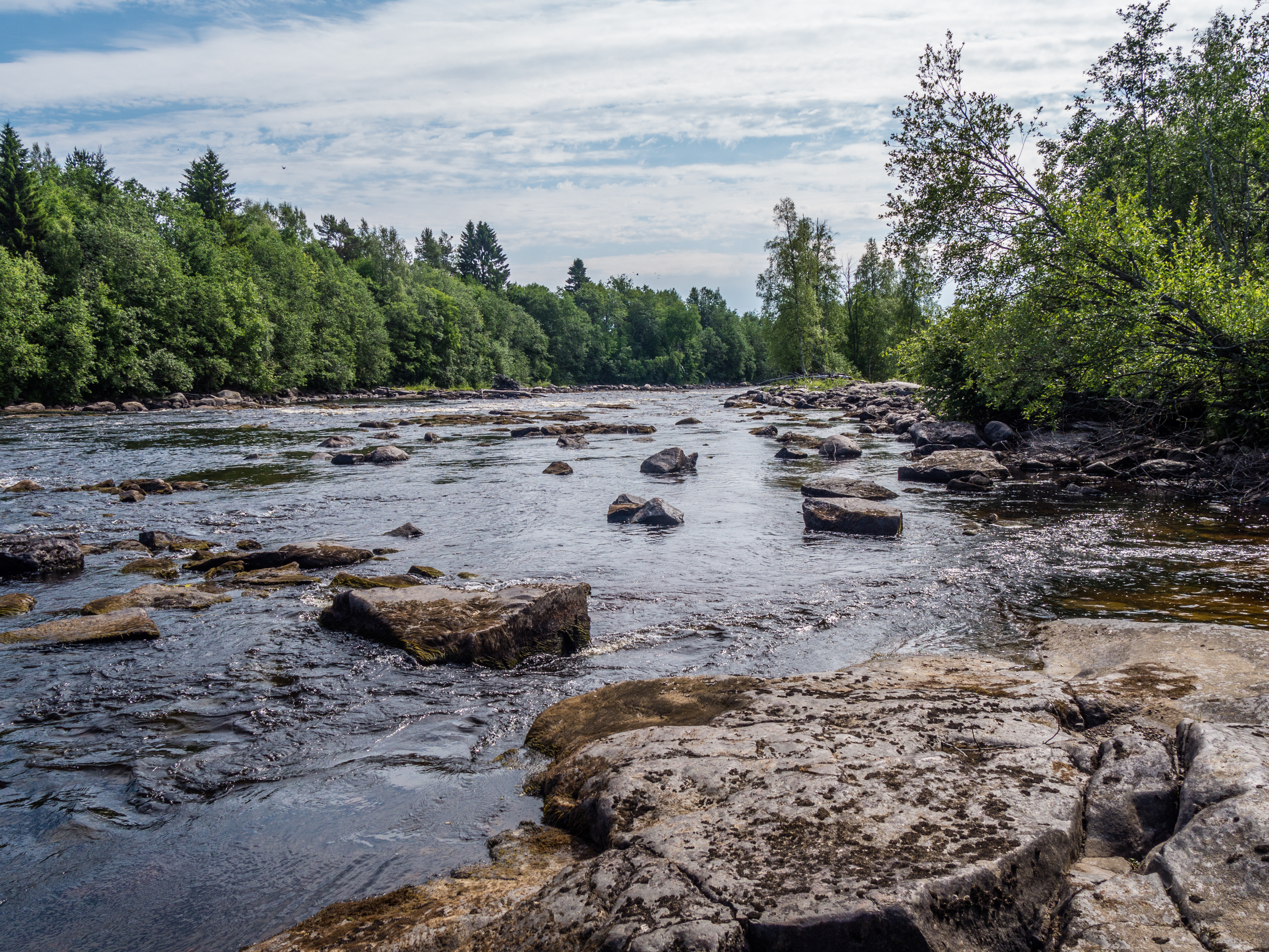 Gideälven near Gideåbacka